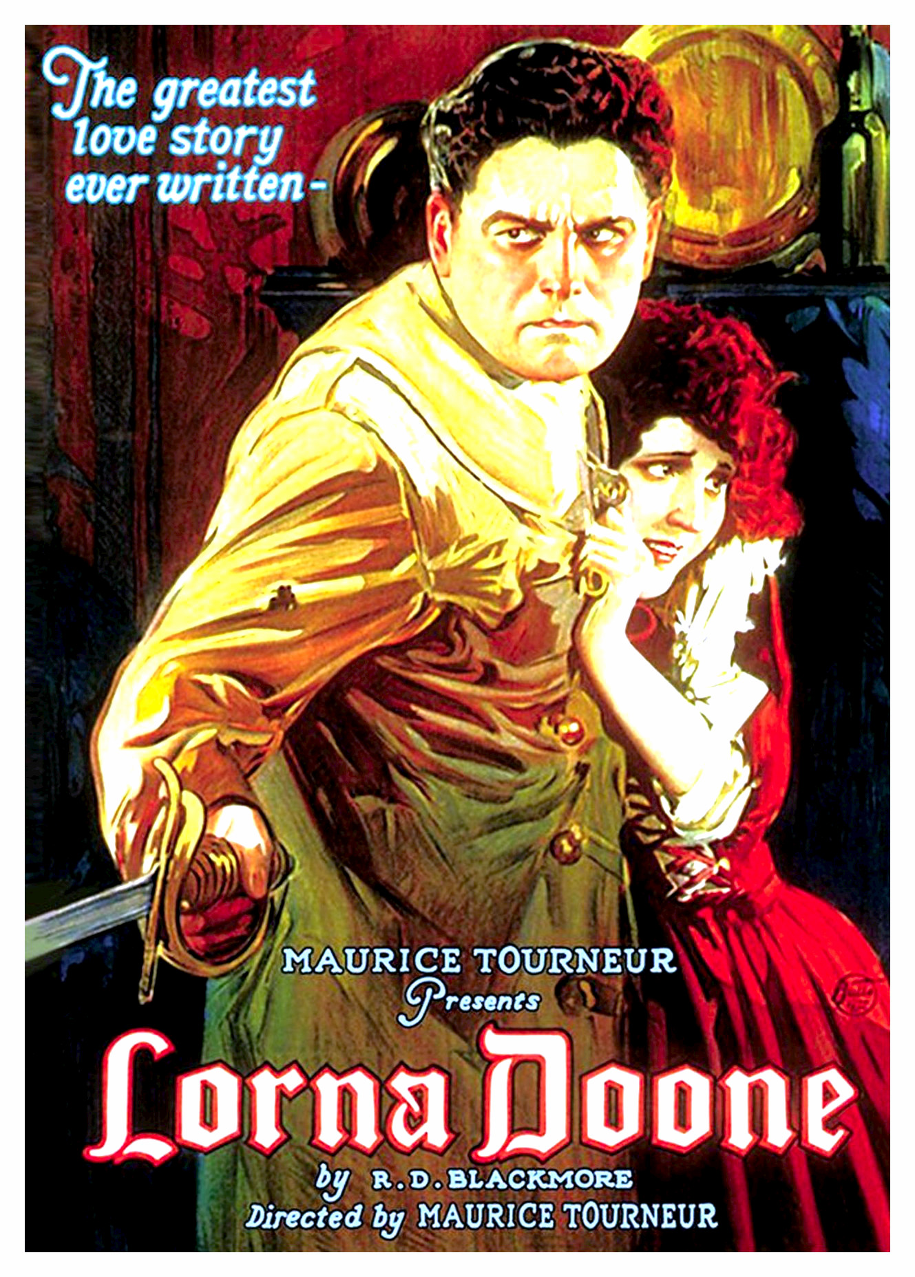 Movie poster for Lorna Doone (1922).